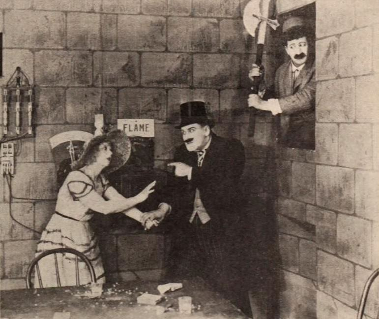 Still from the American comedy short film Mystic Mush (1920) (captioned in the magazine as Mystic Mask) with Madge Kirby, Vernon Dent, and Hank Mann, on page 67 of the February 5, 1921 Exhibitors Herald.